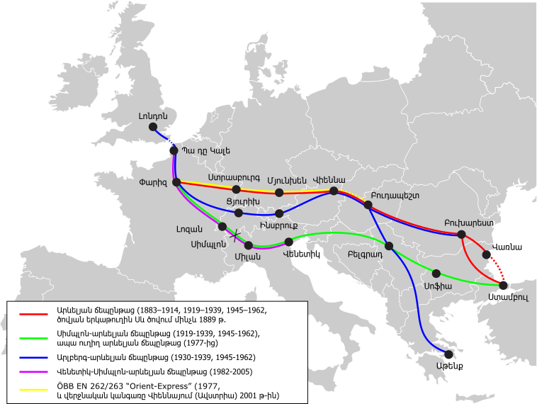 Historical map of the Orient-Express with various destinations